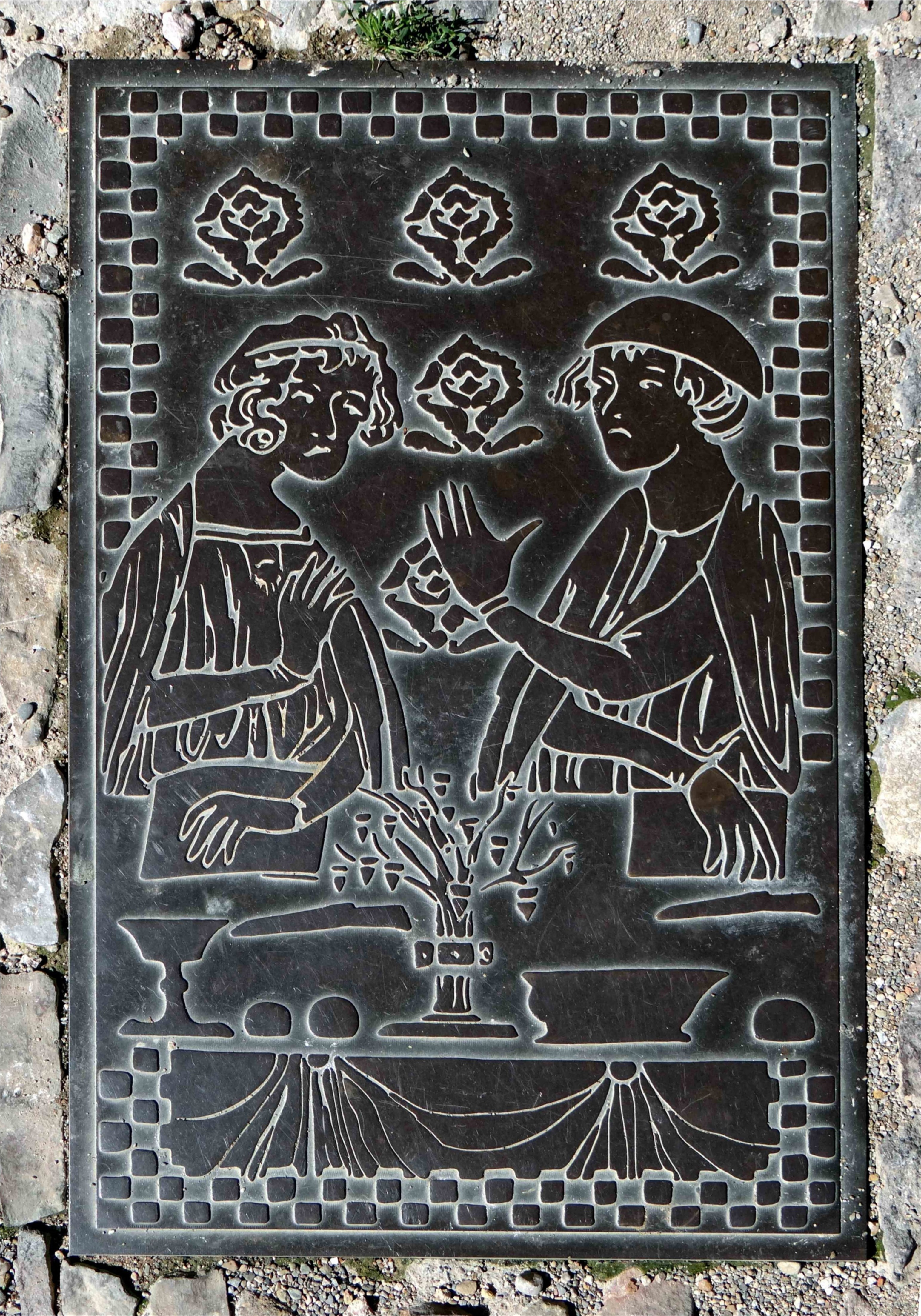 Castle Villerouge-Termenès, Aude, France. Plaque representing Bélibaste and Cathar companion Philippe Alairac front door entrance East / South East.